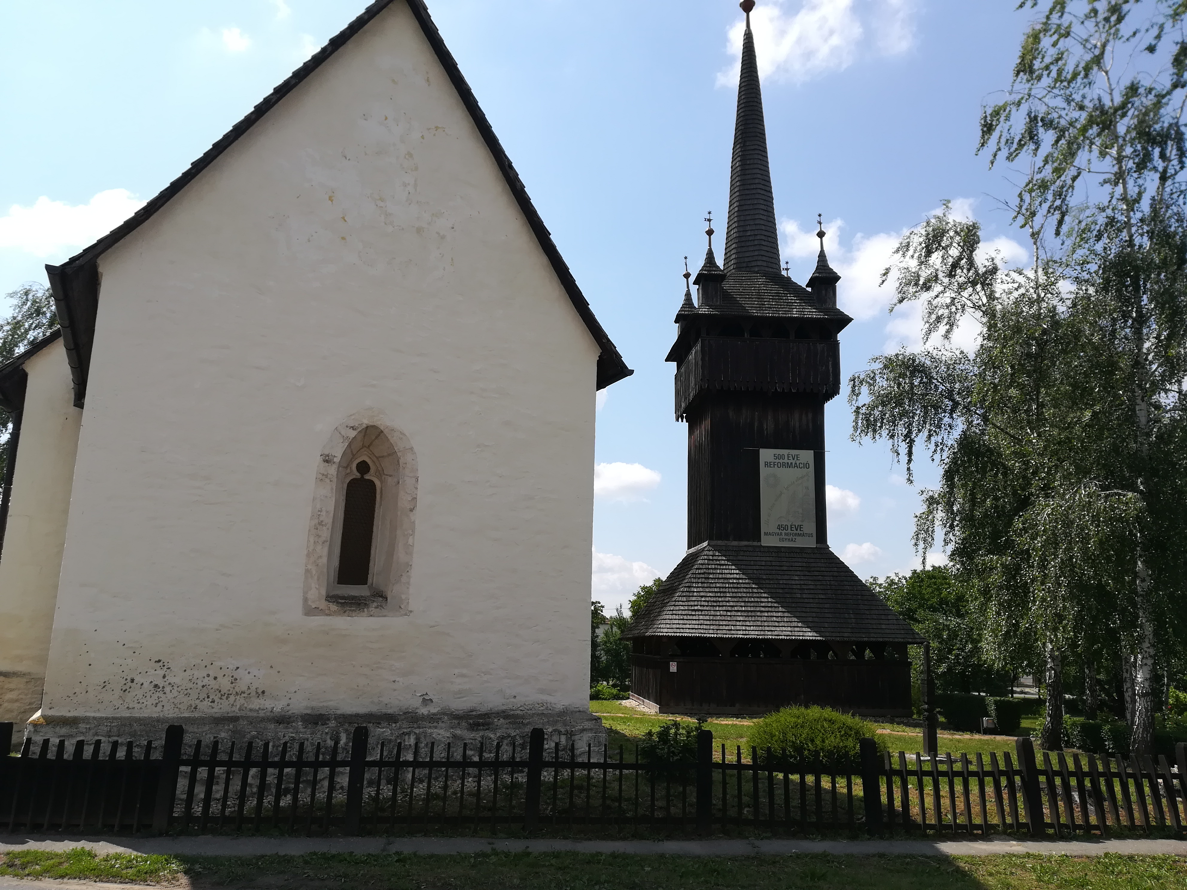 Calvinist church in Vámosatya, Hungary